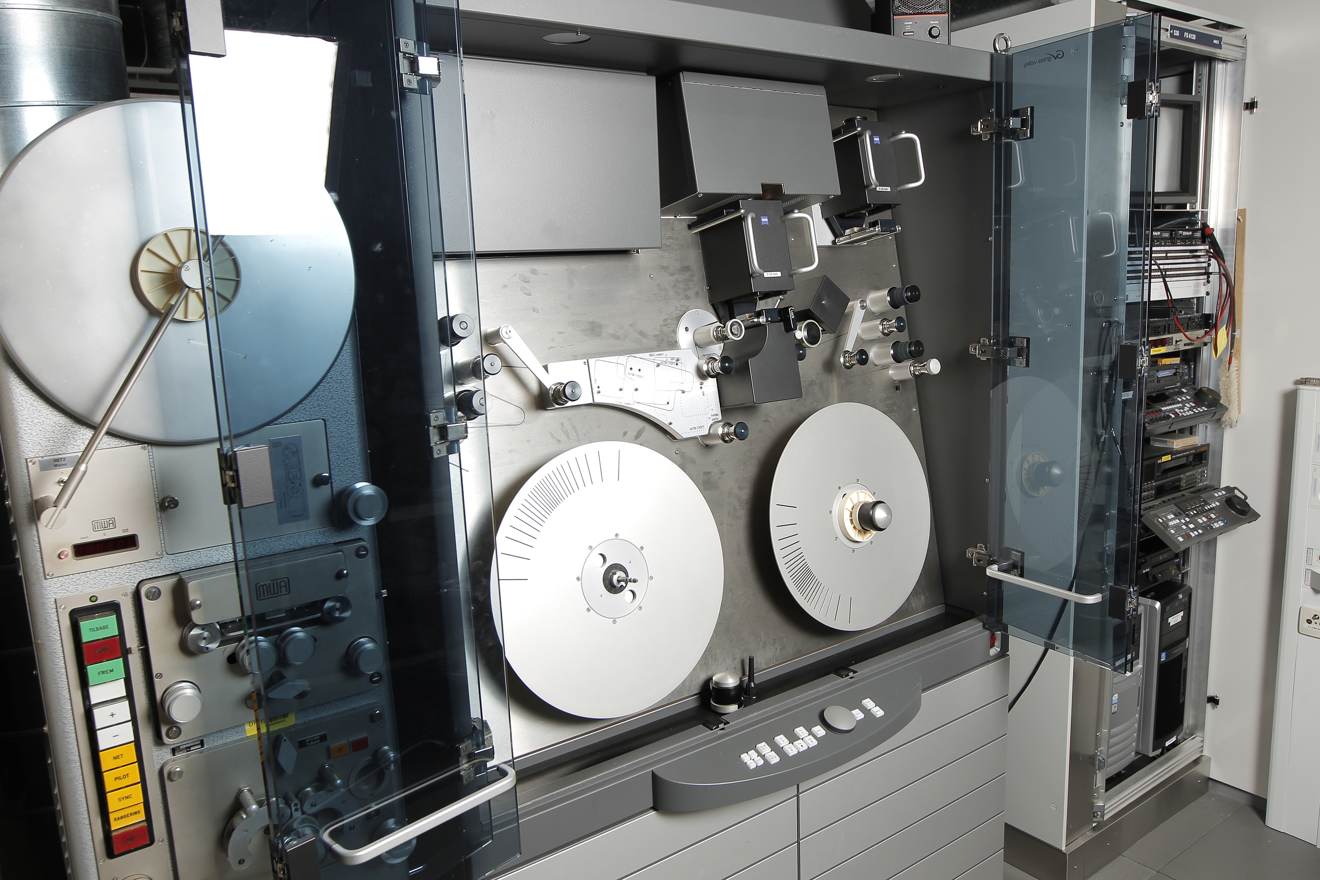 Danmarks Radios arkiv af DRs Kulturarvsprojekt / The archive of the Danish Broadcasting Corporation Photos must be credited "DRs Kulturarvsprojekt"